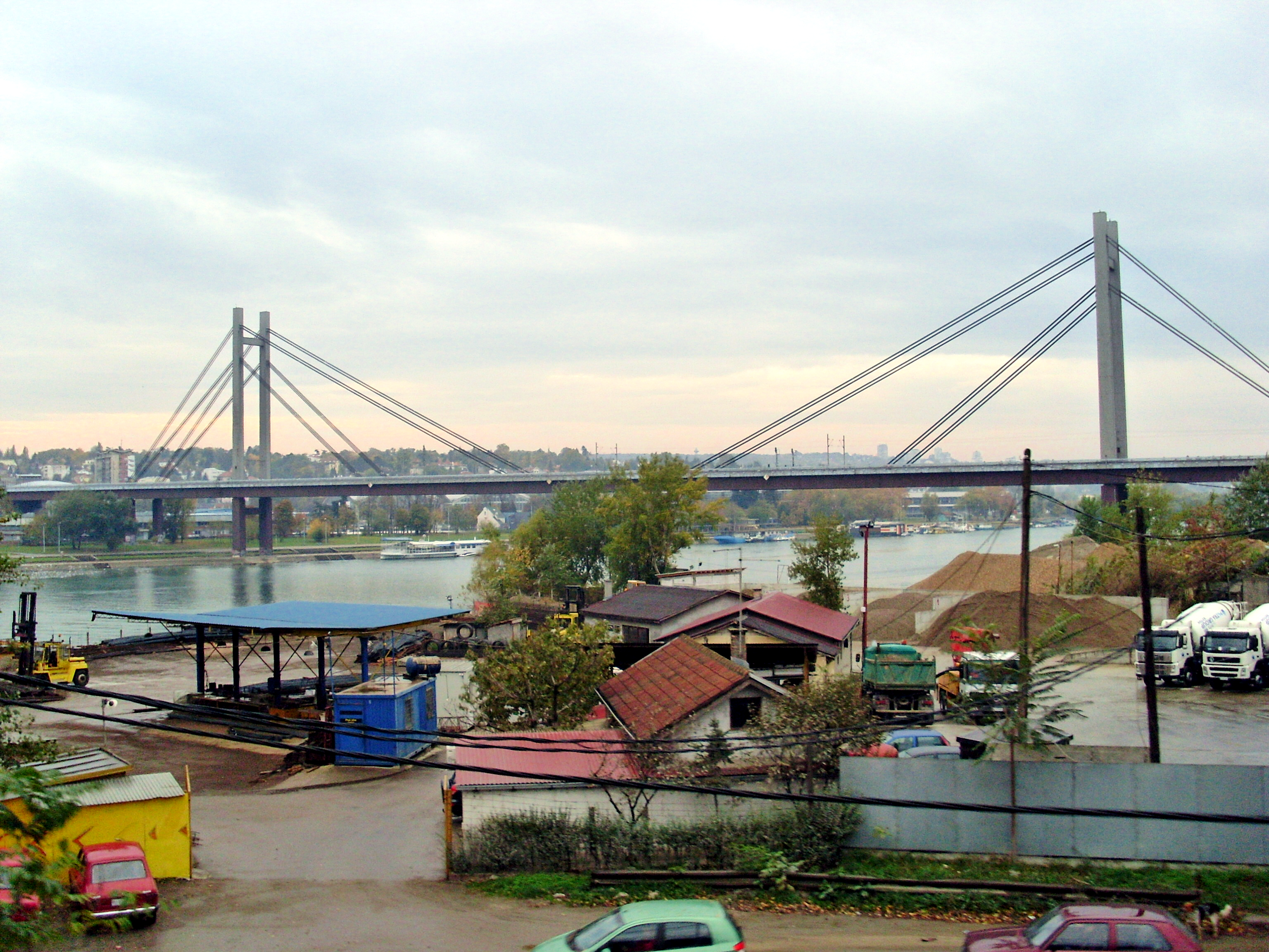 The new Railway Bridge, finished 1979, part of the Belgrad railway junction with the Belgrade central station currently being under construction.